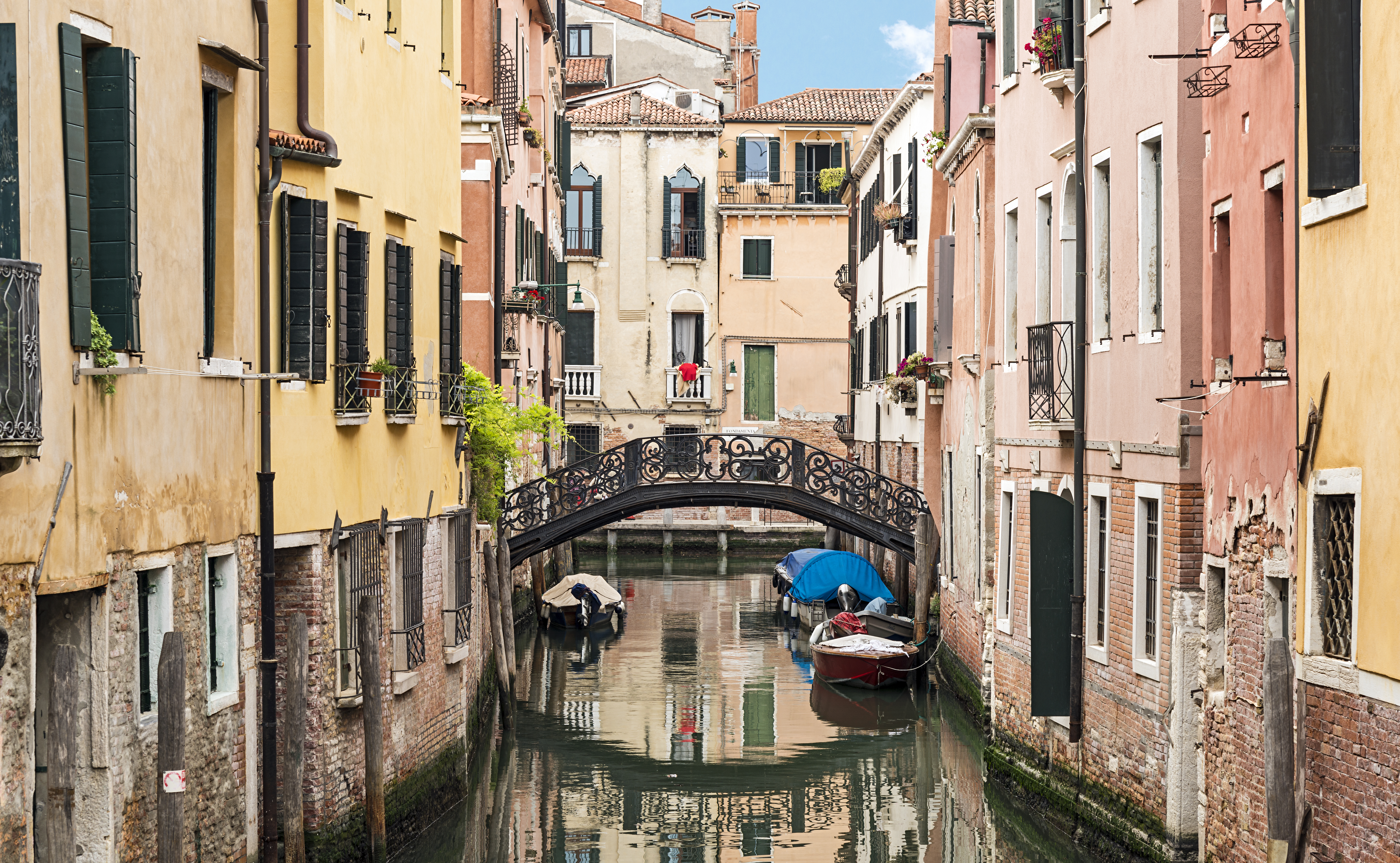 Ponte Priuli de la Racheta on Rio Priuli o de Santa Sofia - Venice